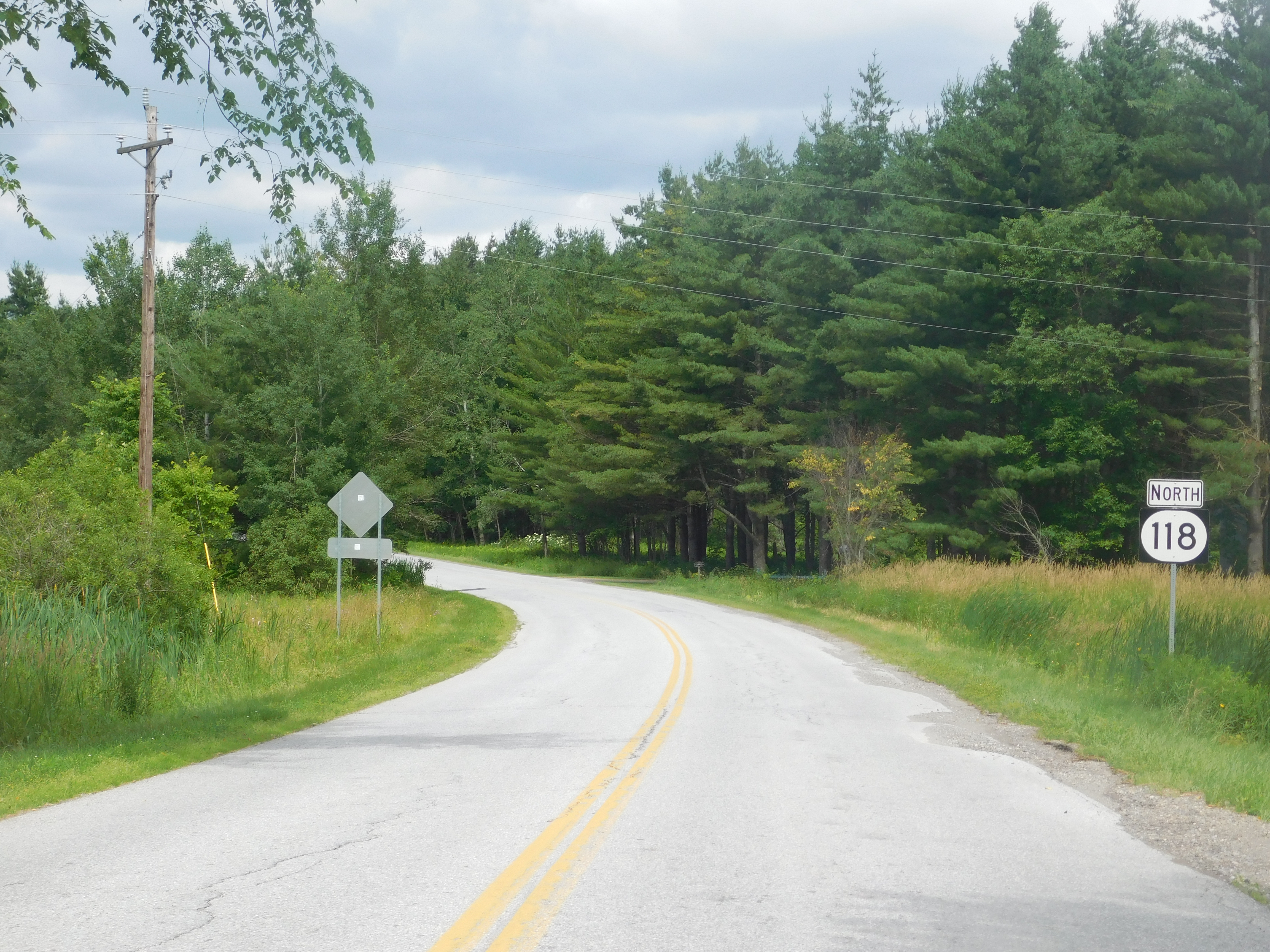 VT 118 in Berkshire, Vermont.